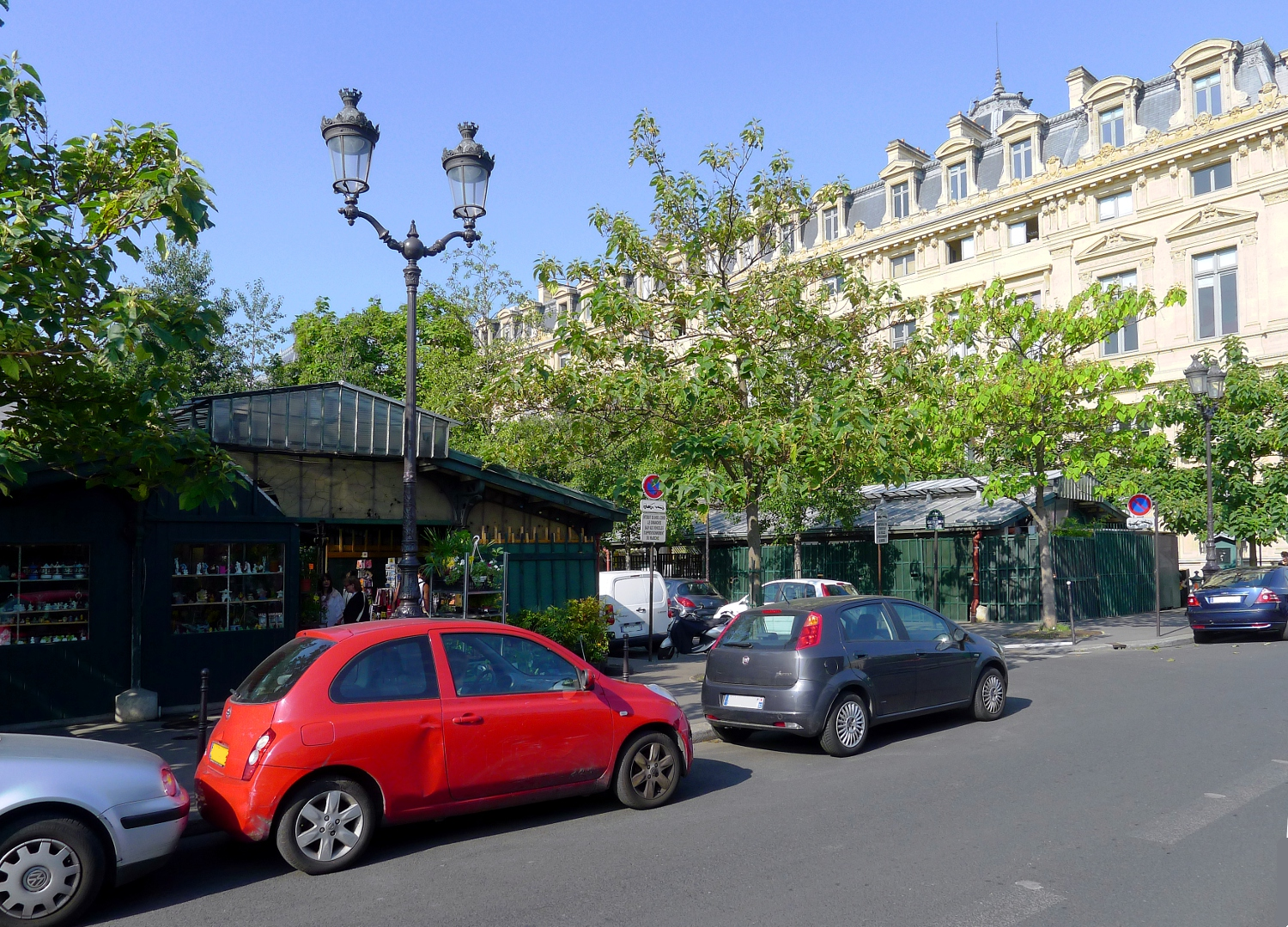 Quai de la Corse and Louis-Lépine place - Paris